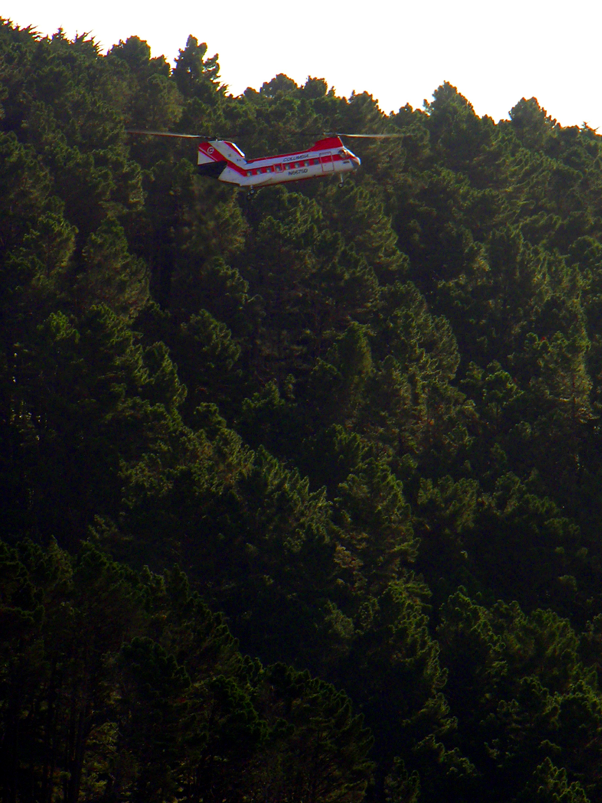 Despite appearances,and despite the fact that the helicopter bears an American registration, this was taken from my downtown office, and the operation was going on within 300 metres of the New Zealand parliament. The trees were blown down in a storm in 2004.